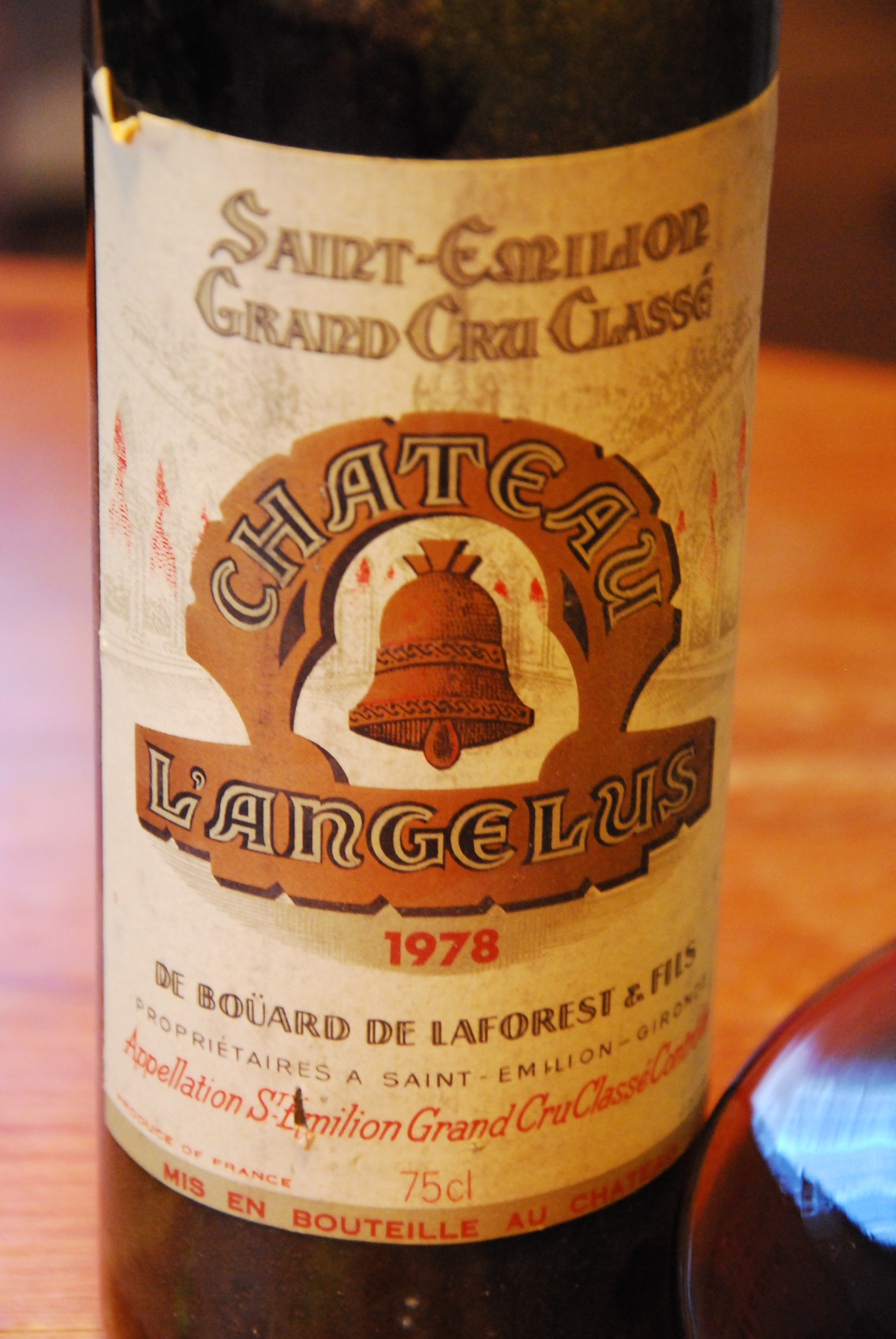 Bordeaux wine Angelus from France